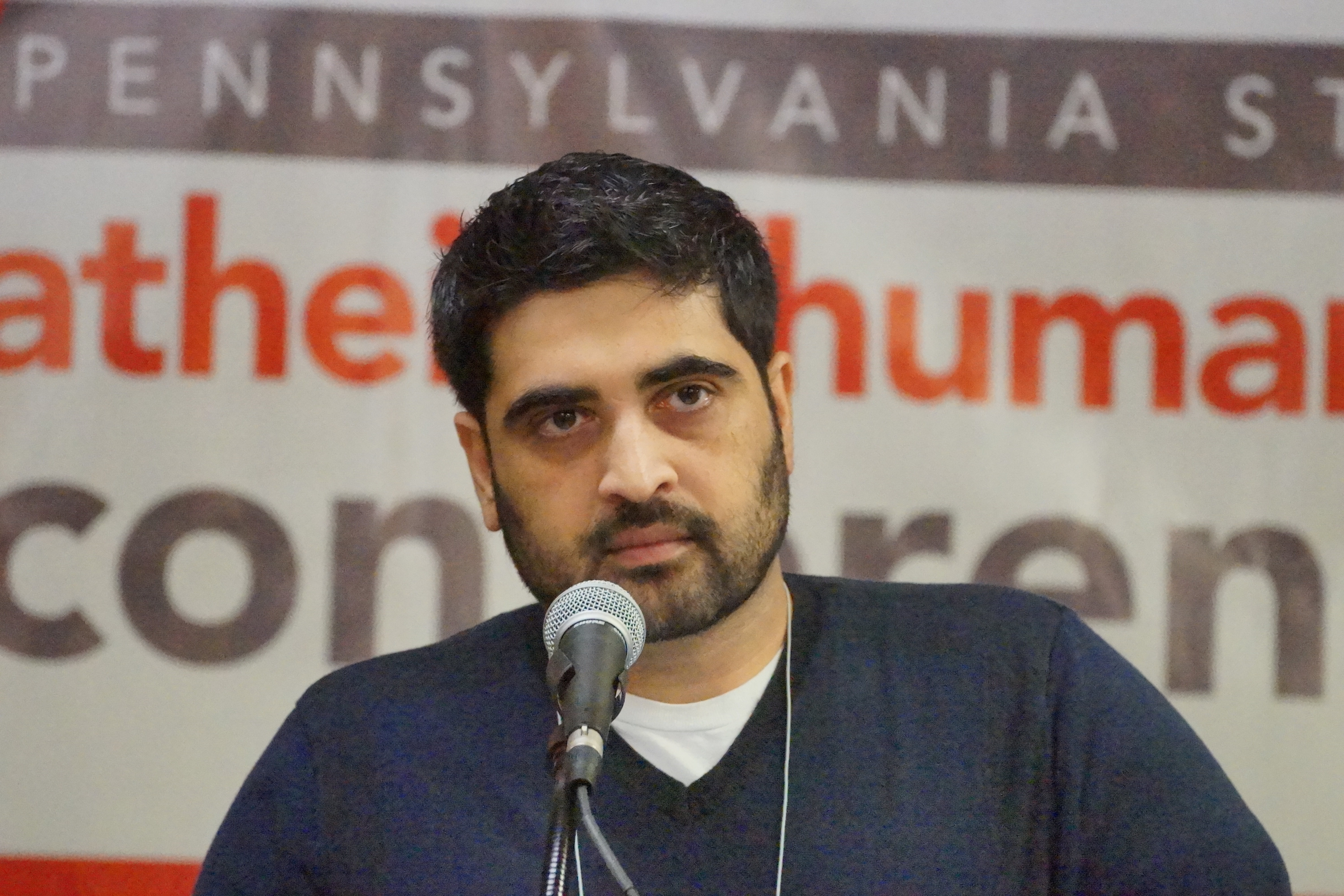 Photo of Muhammed Syed giving a talk at PASTAH CON in 2015.